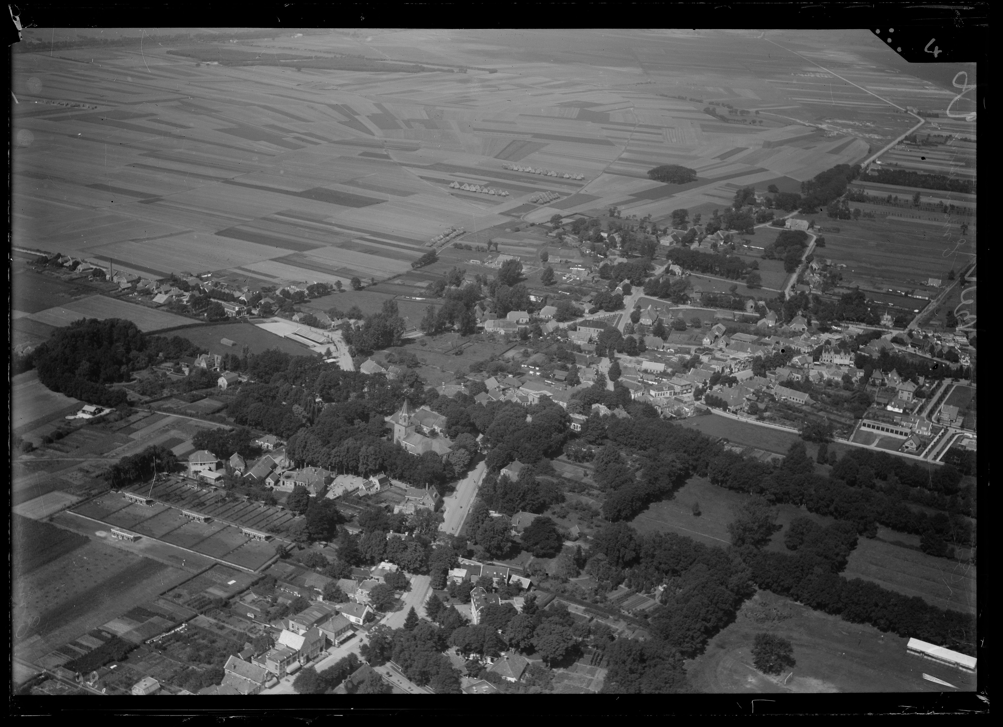 Aerial photograph of Emmen, The Netherlands